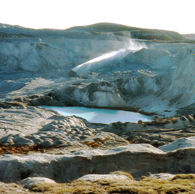 Lee Moor claypit 1979. Clay mining by giant hose. Photograph taken in south westerly direction from the road from Cadover Bridge near Blackaton Cross as marked on the 1940's OS 1" map. This road is no longer a through road. At the time of the photograph the workings came close to the edge of the road.